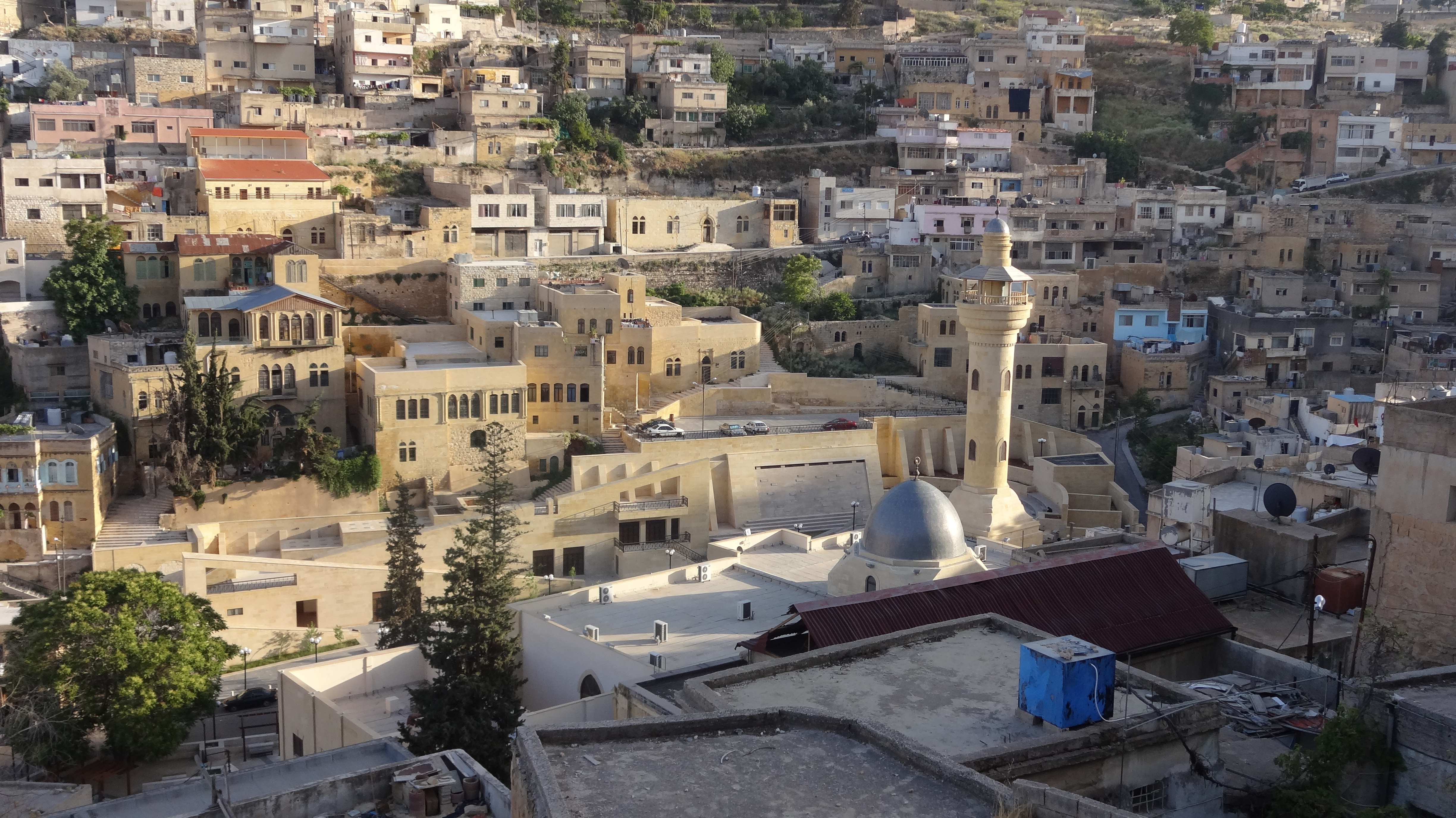 Central Area of Salt city. The Area called Al-Saha. Historical Salt Churches are Balqa Tourism Directorate, Abu Jaber Museum are all within the premises of Al-Saha.